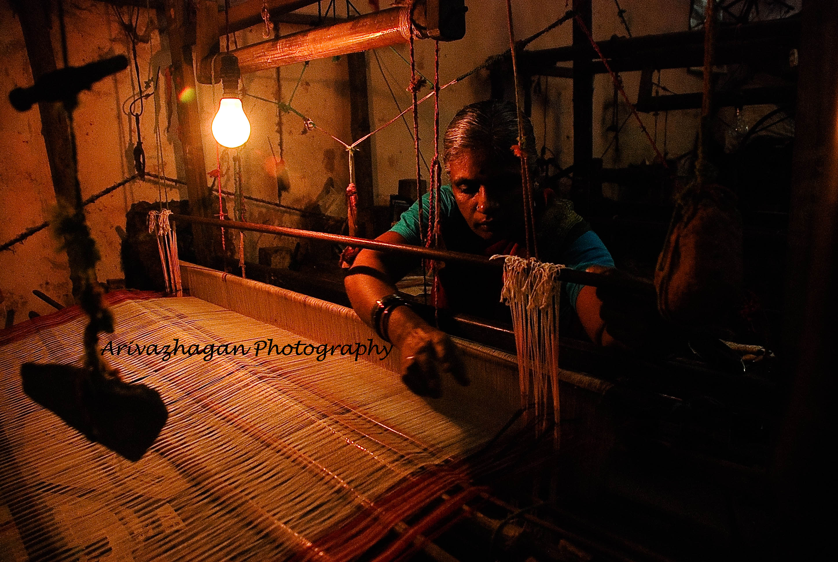 One of the dying business in Tamilnadu,India